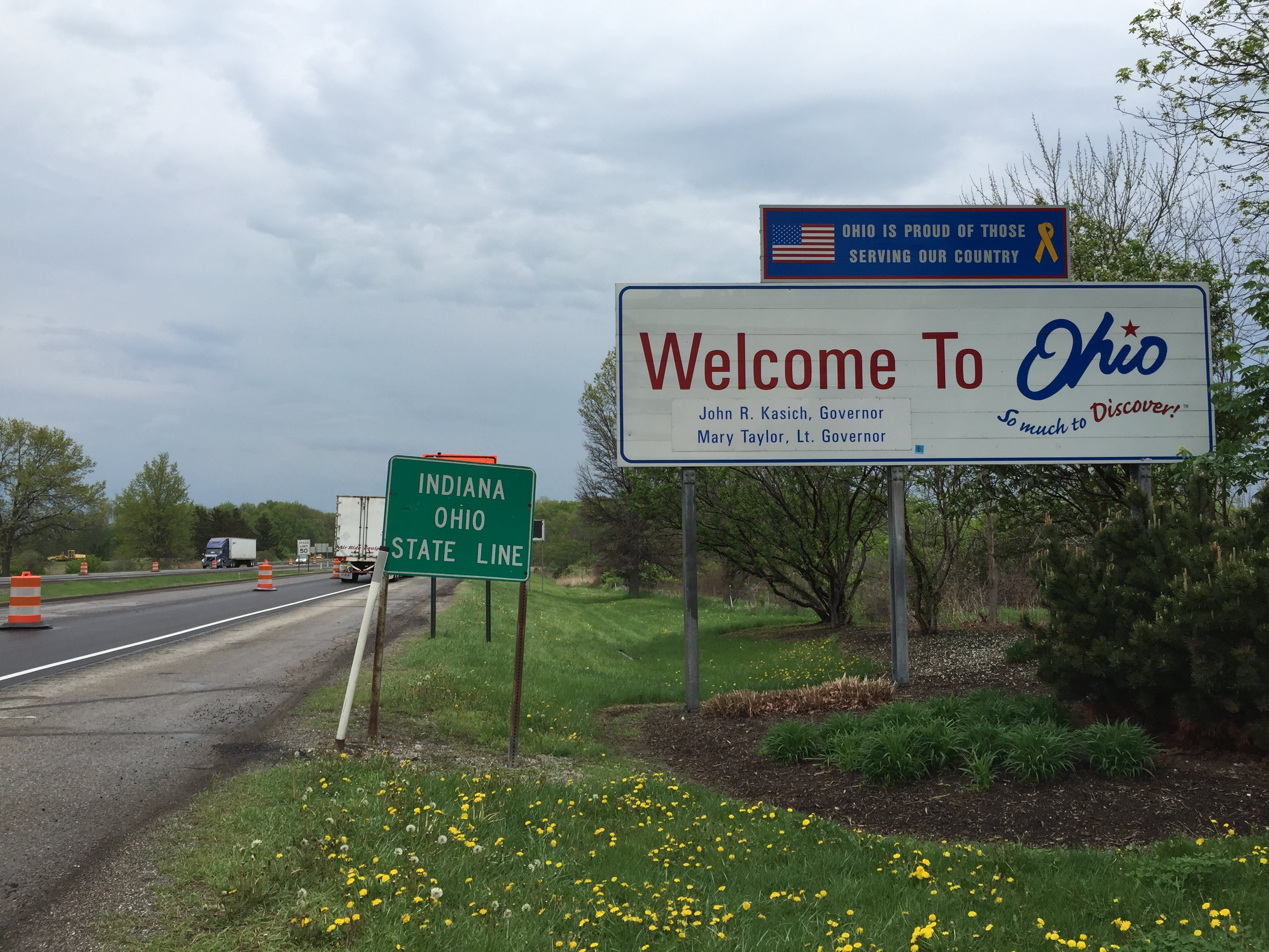 View east along Interstates 80 and 90 crossing from York Township, Steuben County, Indiana (on the Indiana Toll Road) to Northwest Township, Williams County, Ohio (on the Ohio Turnpike)